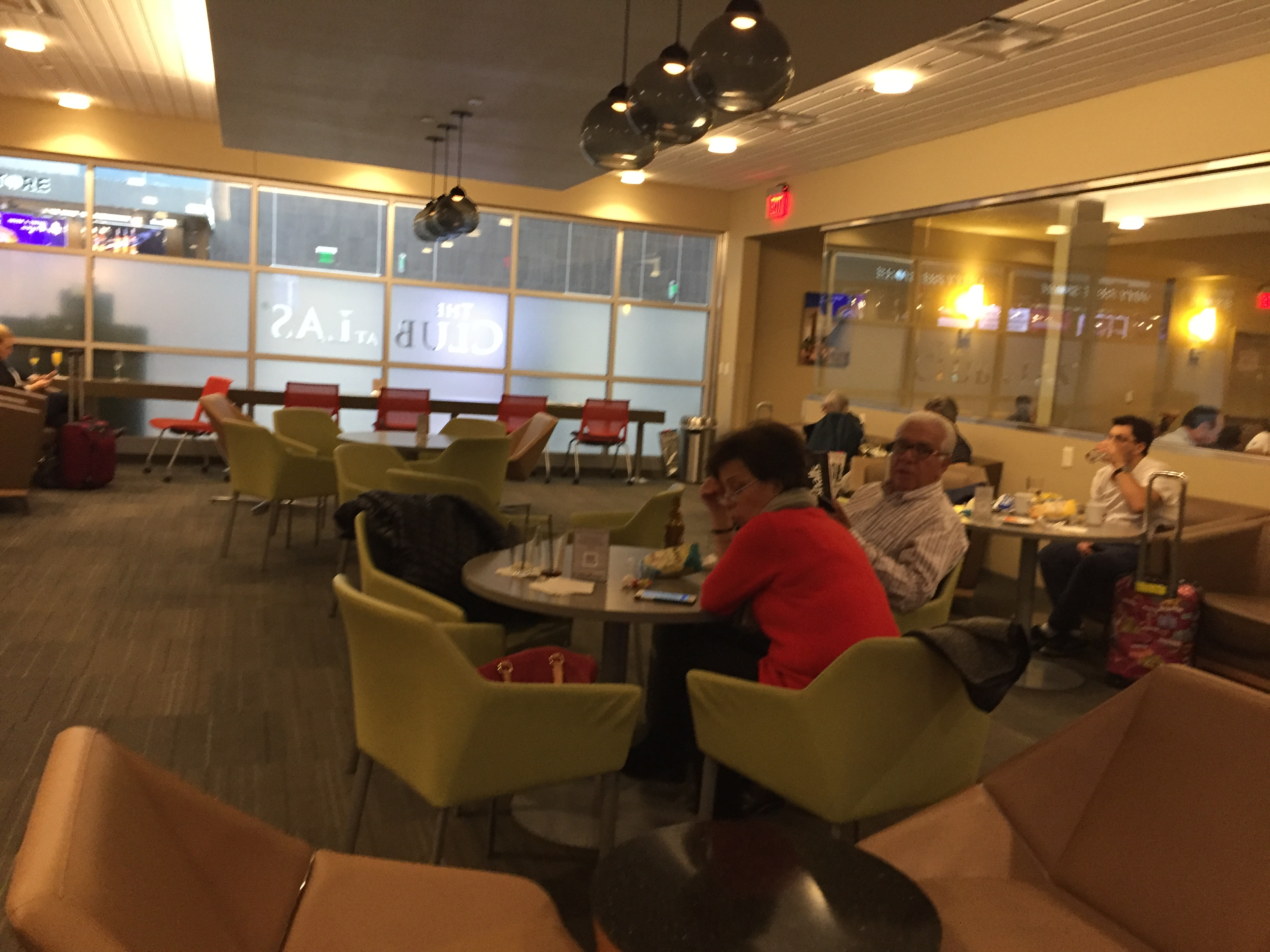 Inside The Club at LAS, a lounge in Terminal 3 of McCarran International Airport, Las Vegas, Nevada, USA.